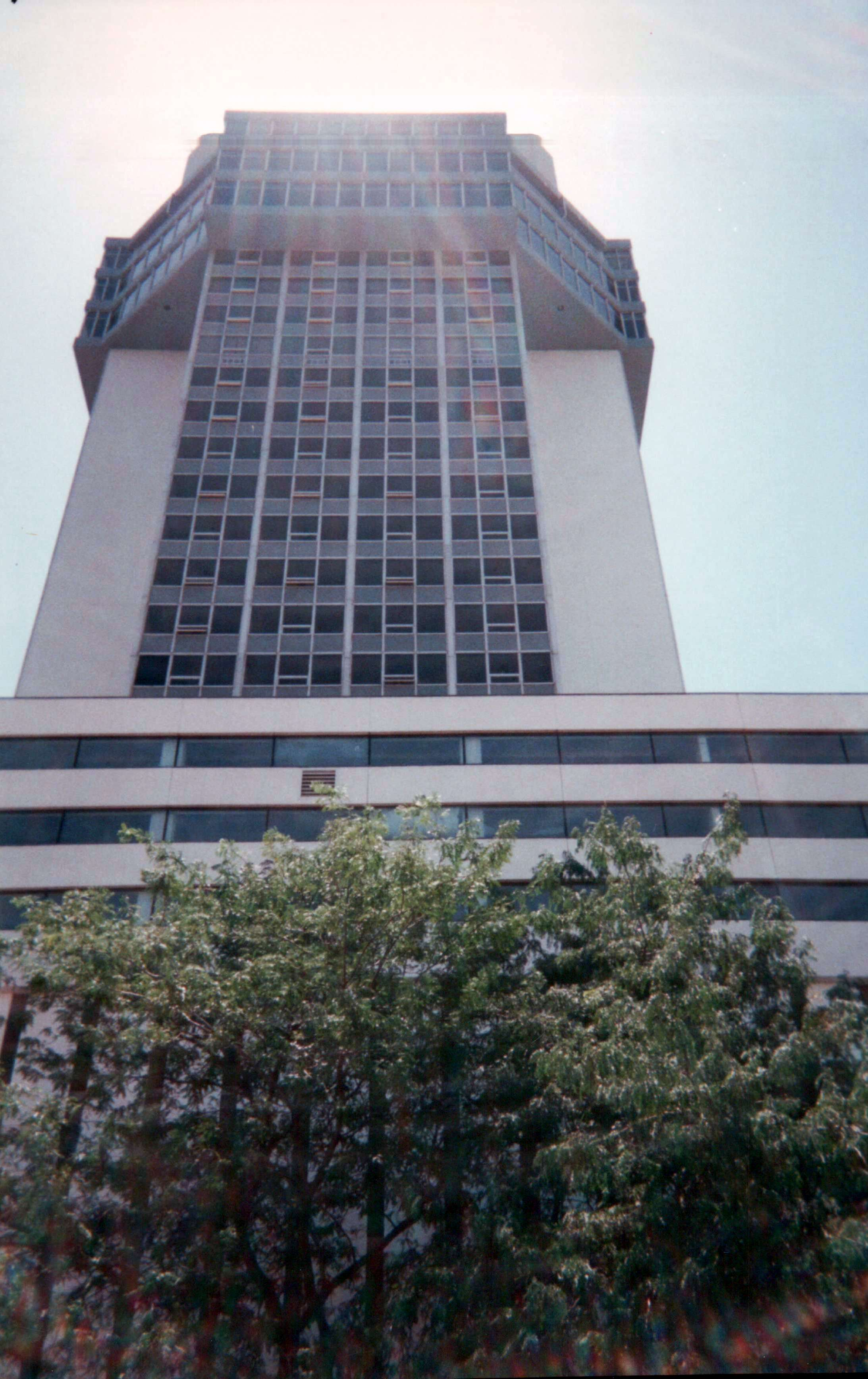 250 Douglas Place in 1999, then known as the Garvey Center.